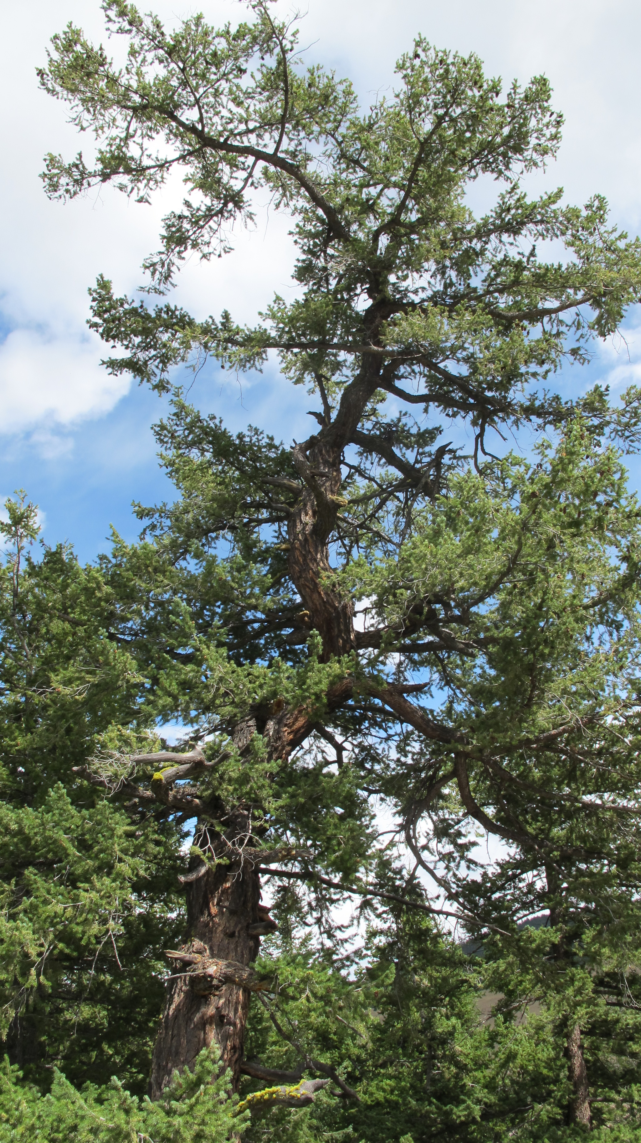 Old Douglas-fir, Thompson-Nicola, British Columbia, Canada.